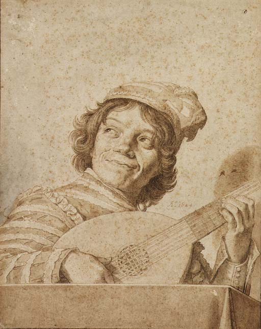 David Bailly after Frans Hals - the Lute player